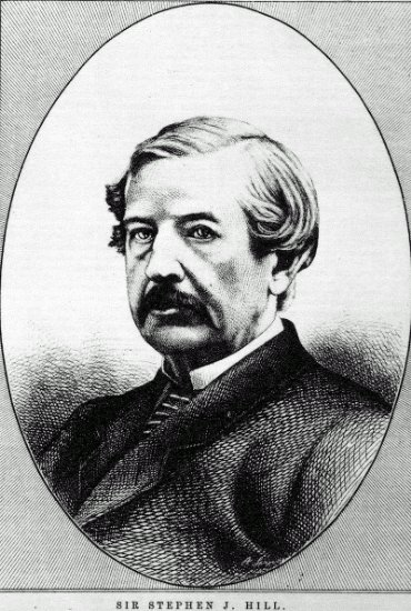 Charles Heavysege